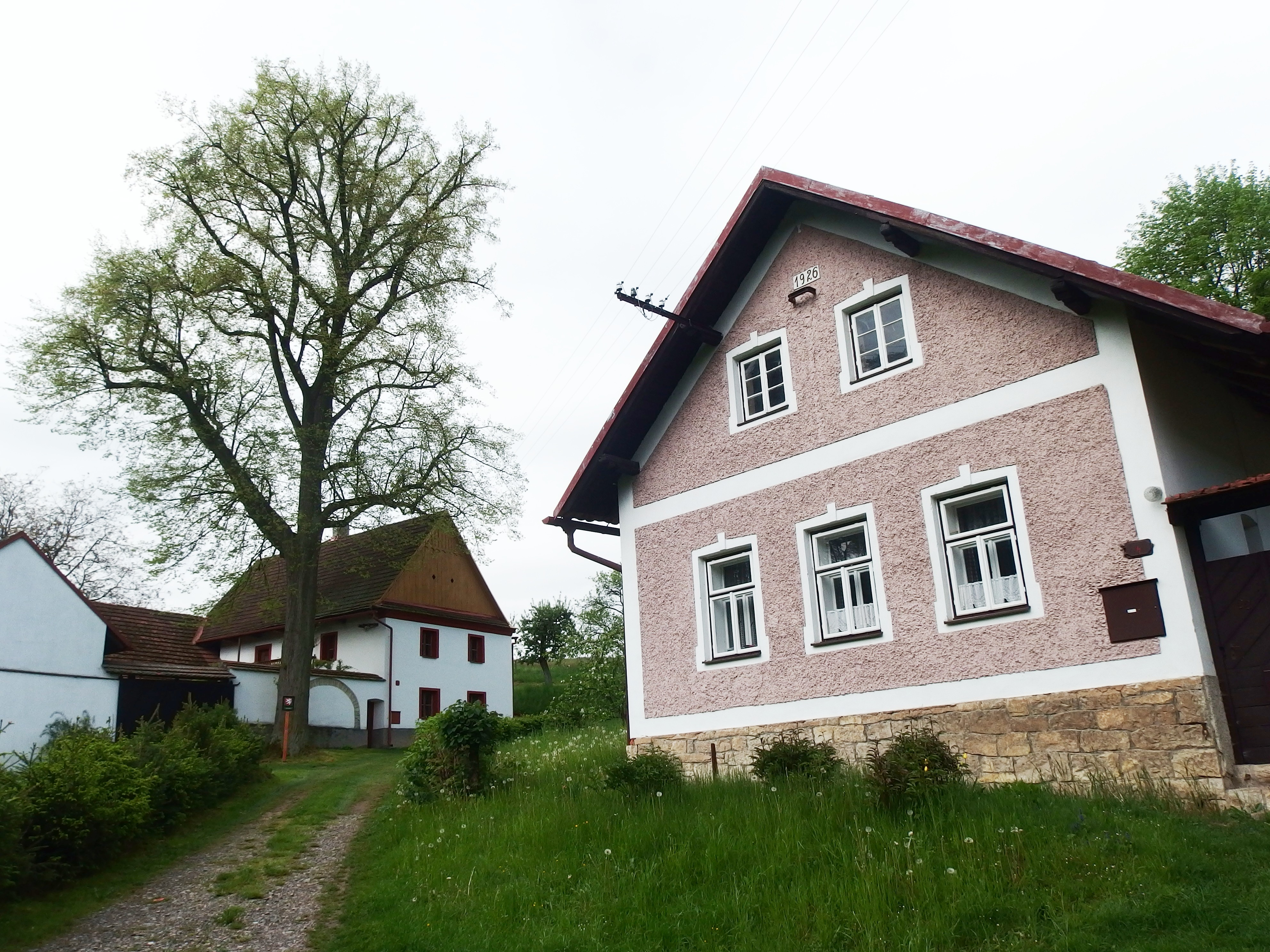 Zádolí, Ústí nad Orlicí District, Czech Republic.